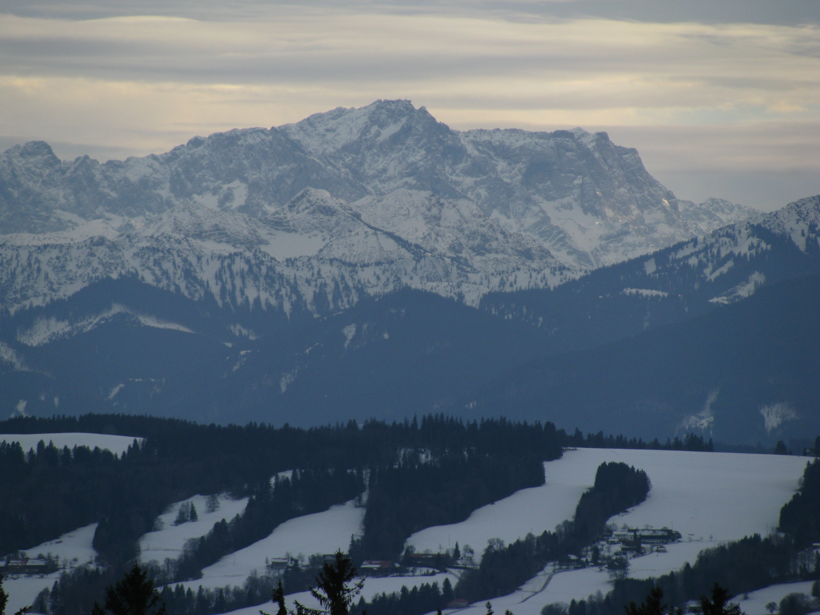 View from Hohenpeissenberg to the Zugspitze